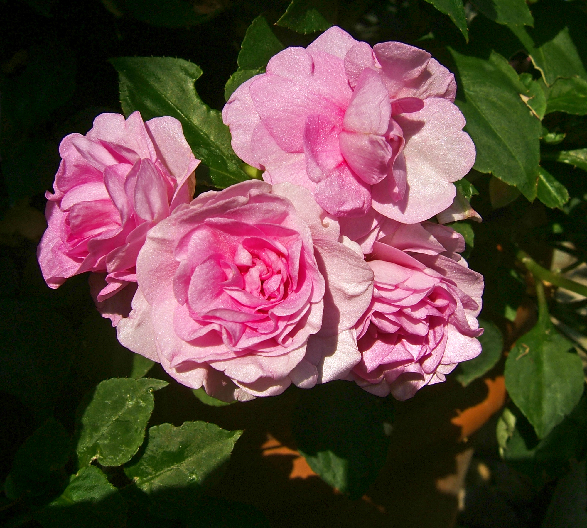 Busy Lizzy ·